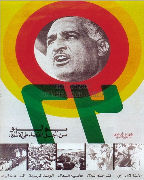 PROPAGANDA POLITICAL ABOLITION COLONIALISM NASSER EGYPT POSTER ART PRINT BB2514B